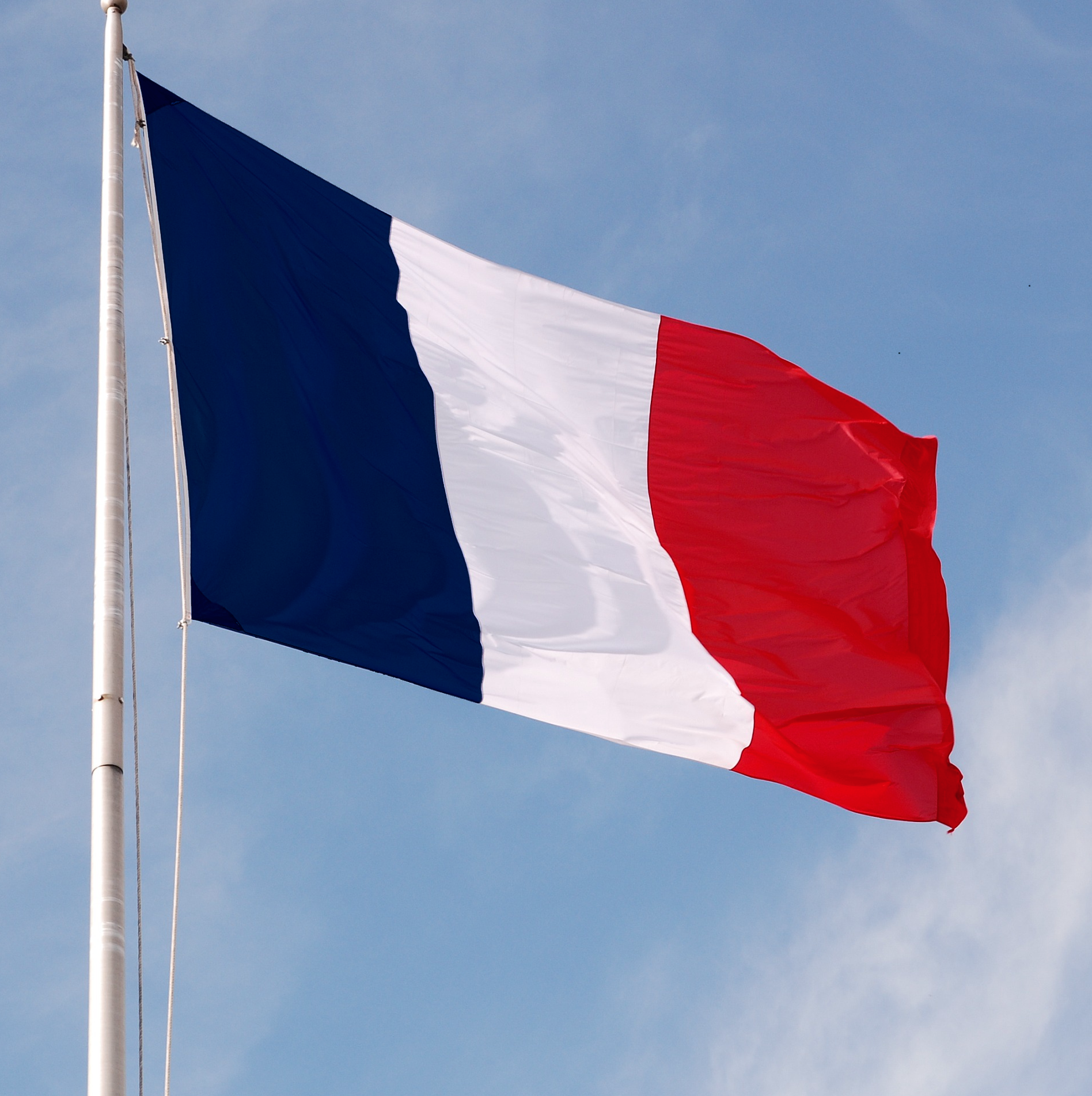 Flag of France